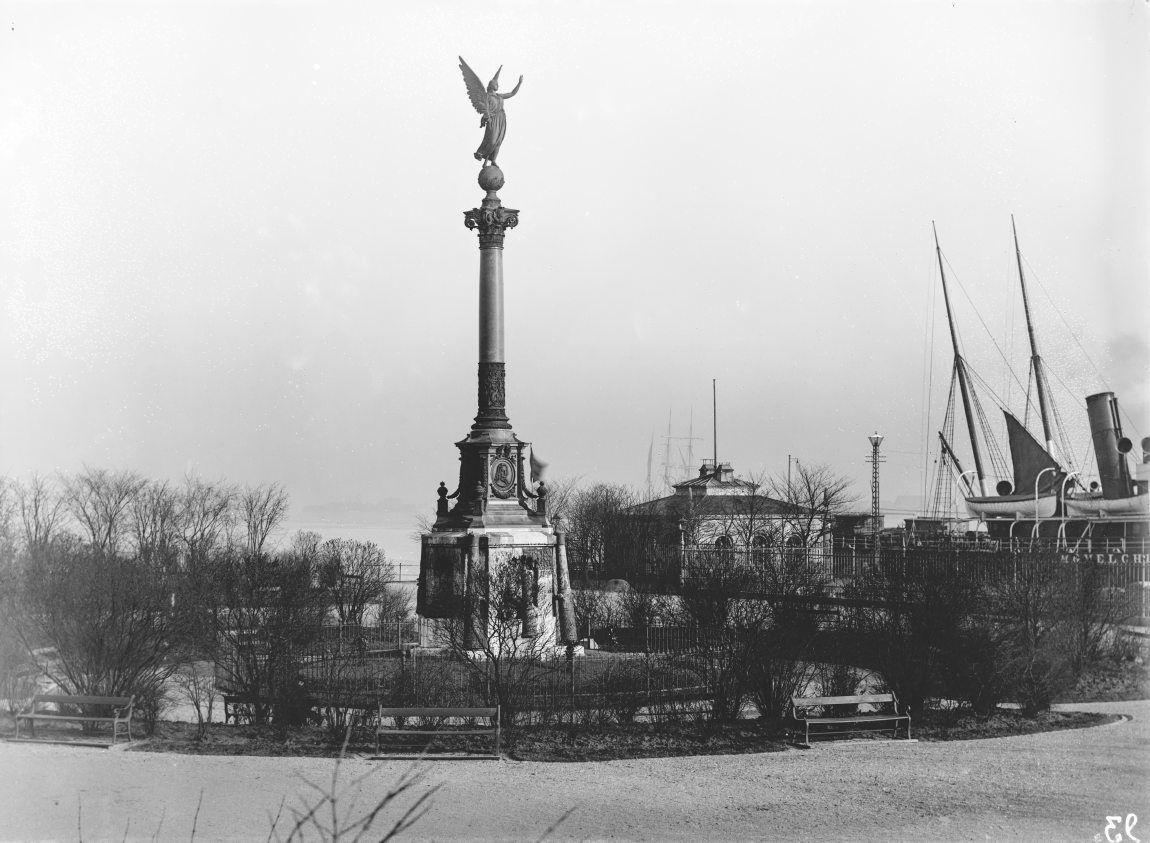 Langeliniepromenaden in Copenhagen, Denmark